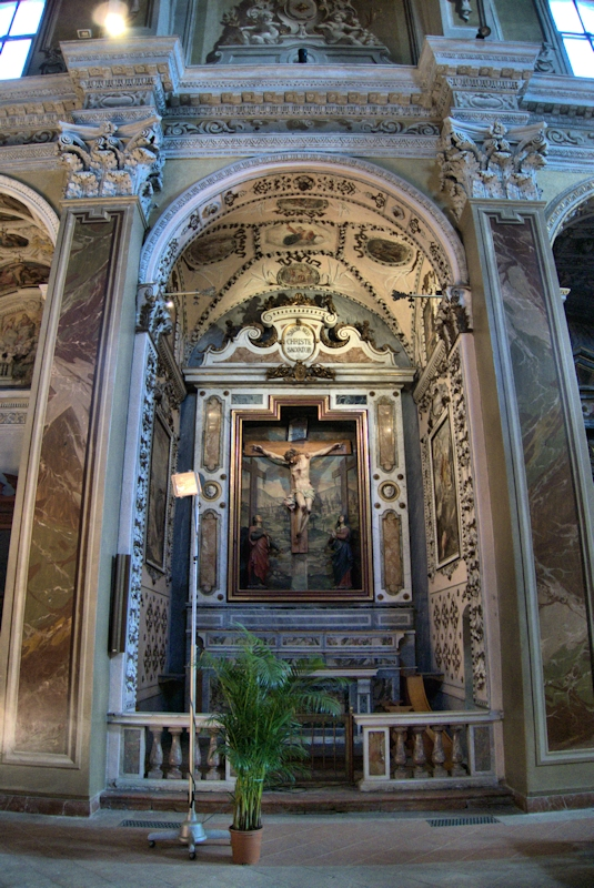 Chapel of the Crucifix